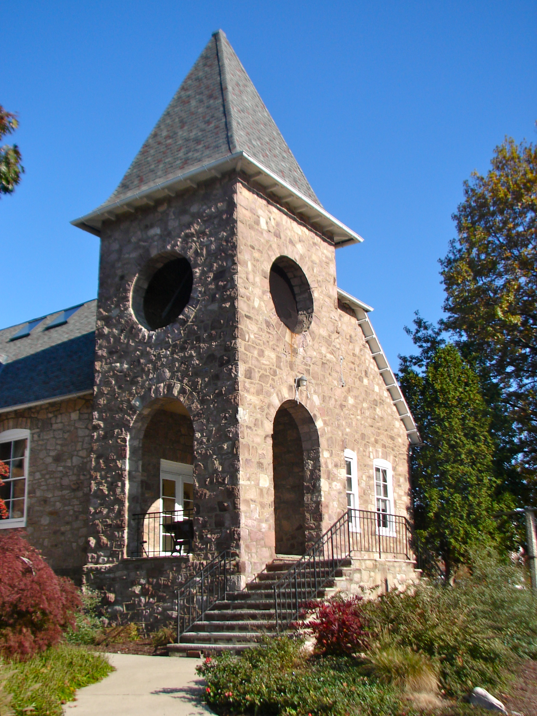 Abington Township High School (aka Huntington Junior High School) on the NRHP since August 2, 1985. At 1801 Susquehanna Road (NE of corner with Old York) in Abington Township, Montgomery County, Pennsylvania. About 6 buildings in the historic complex, this is the one built 1888, according to plaque on the front. The rest of the complex looks like it has been converted into a retirement home. Note that this never was a church, but is believed to have been built by a church architect in 1888, with later additions by known architects. It is the oldest building of the school/historic district, known as building A in the NRHP nomination form [1]